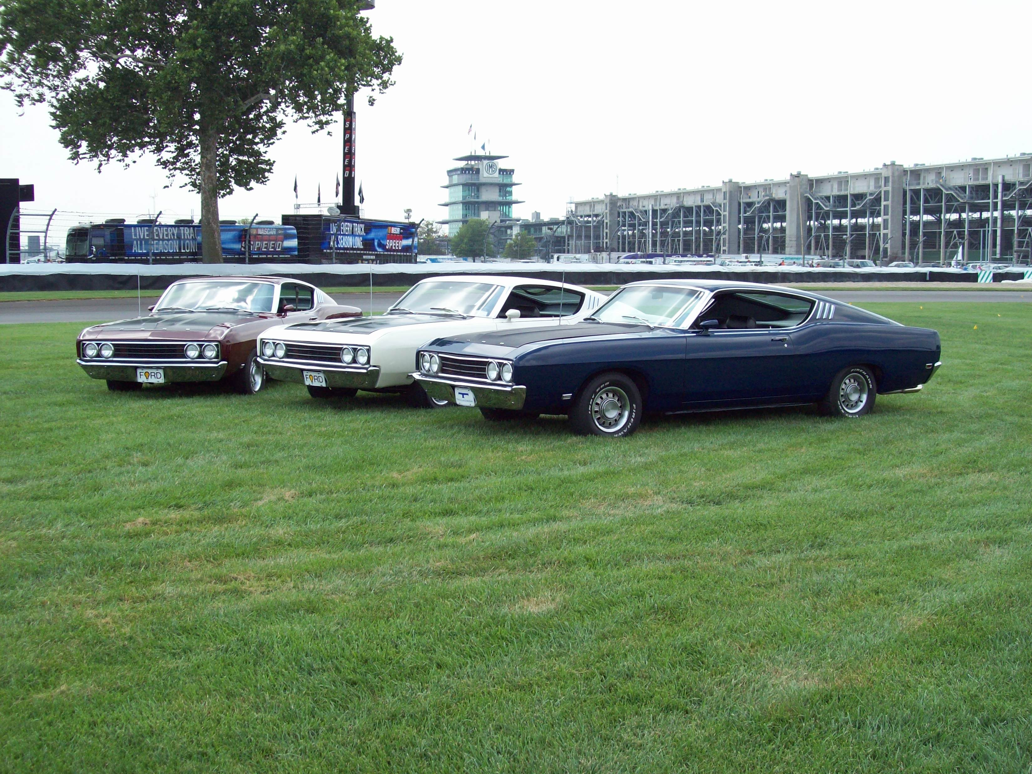 Talladega built by Ford in Royal Maroon, Wimbleton White, and Presidential Blue